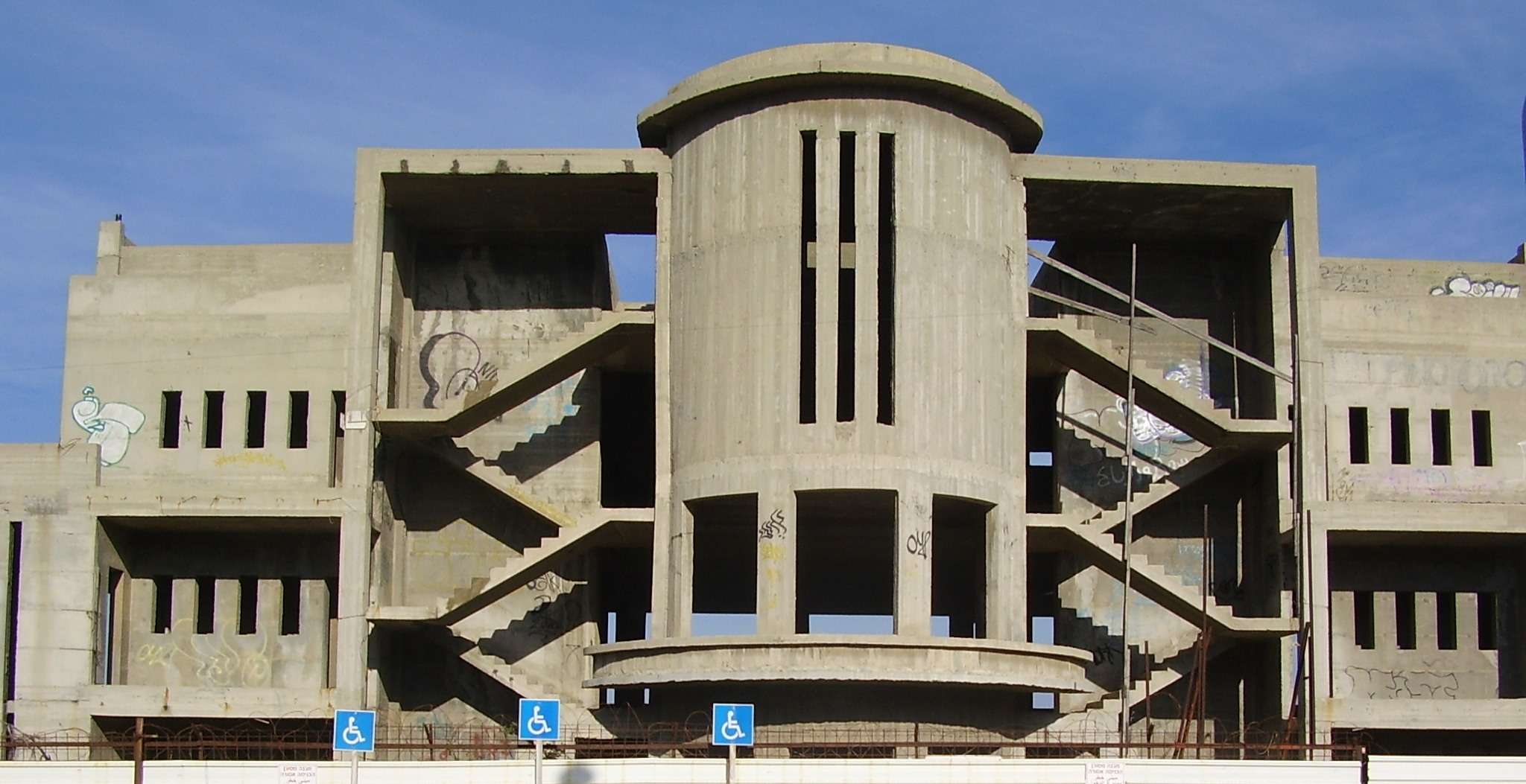 The Modernist ruins of the Casino in Bat Galim, Haifa.